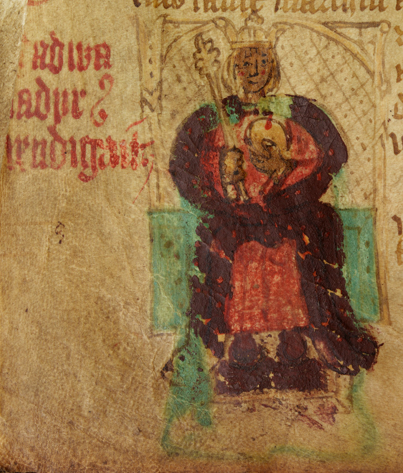 Cadwaladr Fendigaid. A crude illustration from a 15th century Welsh language version of Geoffrey of Monmouth’s highly influential Historia Regum Britanniae (‘History of the Kings of Britain’)